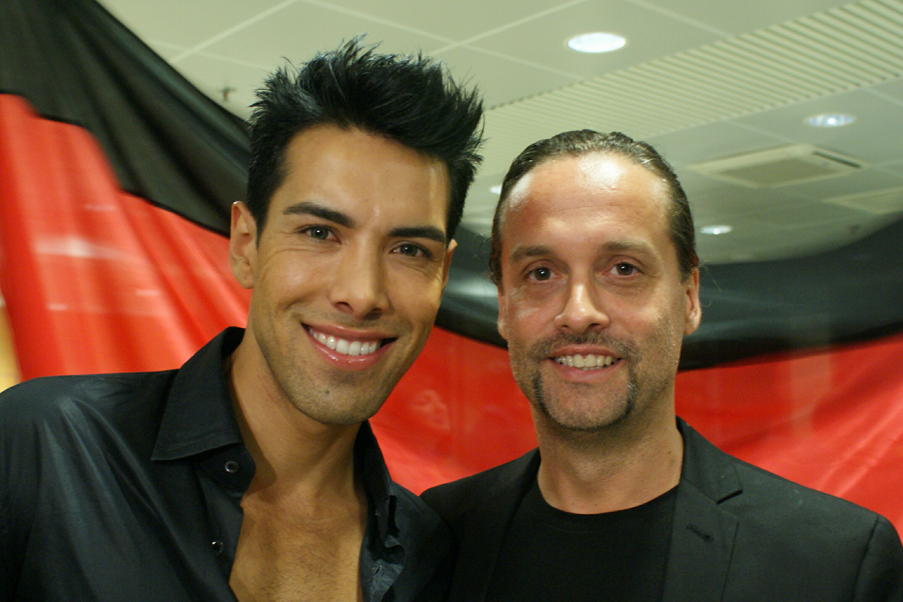 Alex Swings Oscar Sings in Moscow, 2009